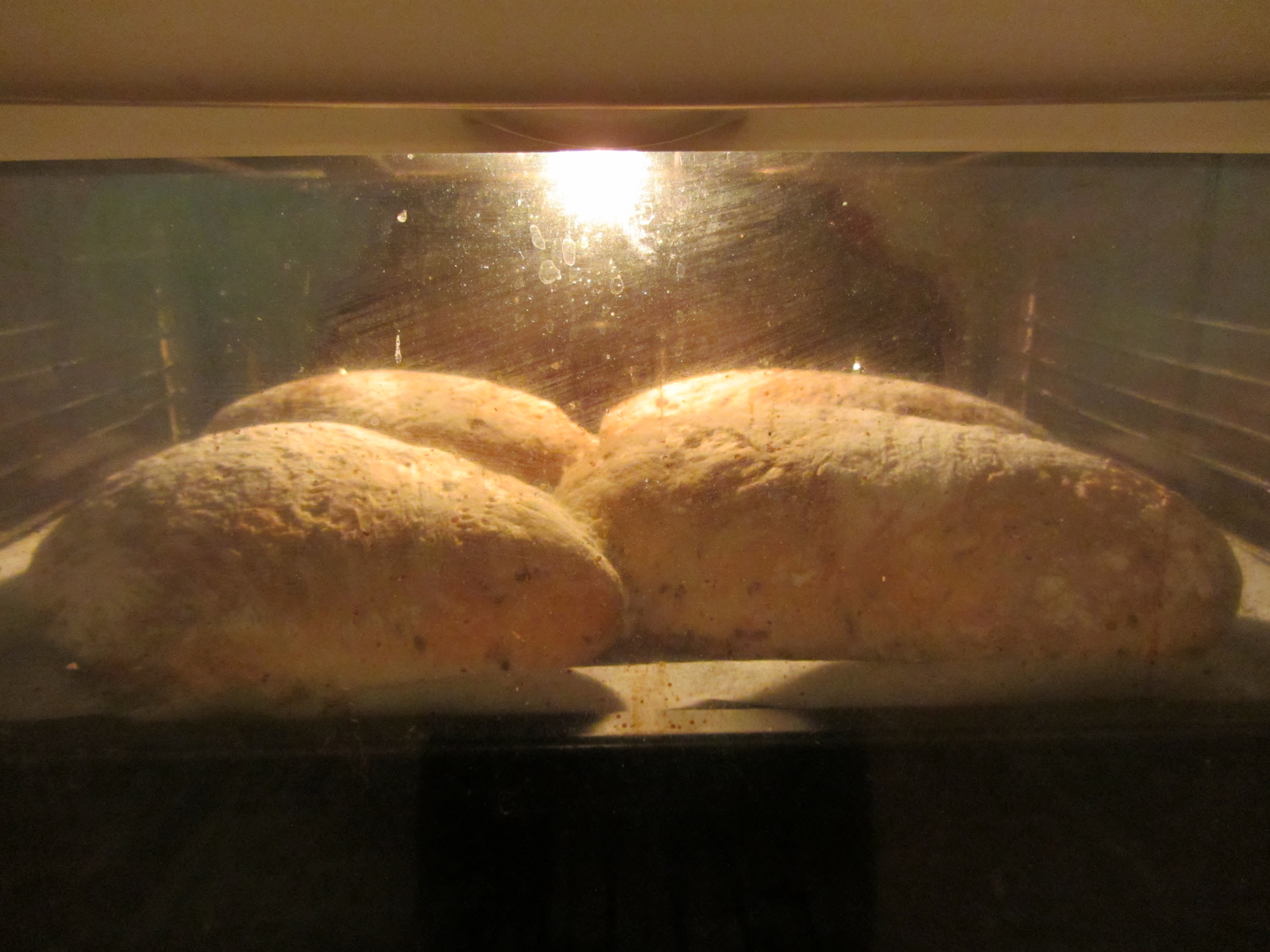 Mixed bread in the oven - dough: 1 liter of water, a piece of yeast, 4 teaspoons of salt, a little oil, wheat flour, oatmeal and bran, rye flour, sunflower and flax seeds